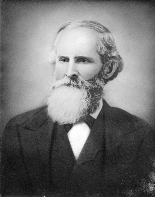 79rd Governor of South Carolin